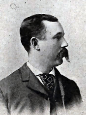 Edgar Wilson, US Representative from Idaho